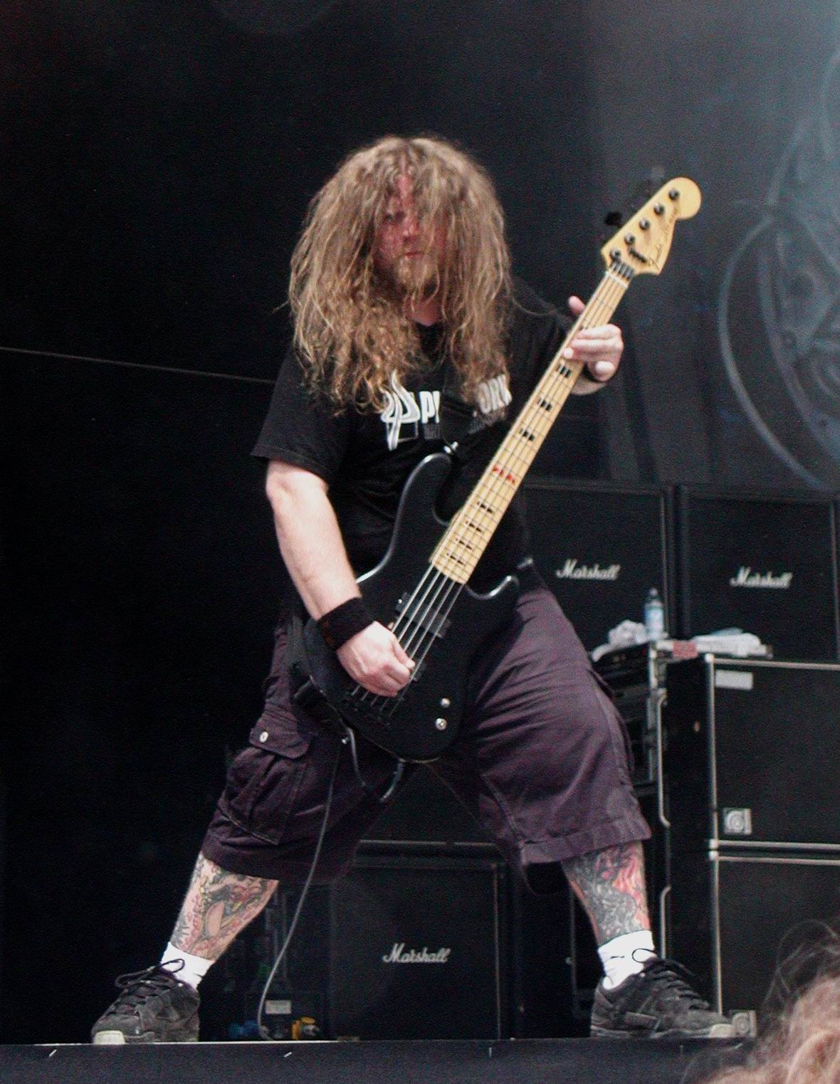 Bassist Byron Stroud.